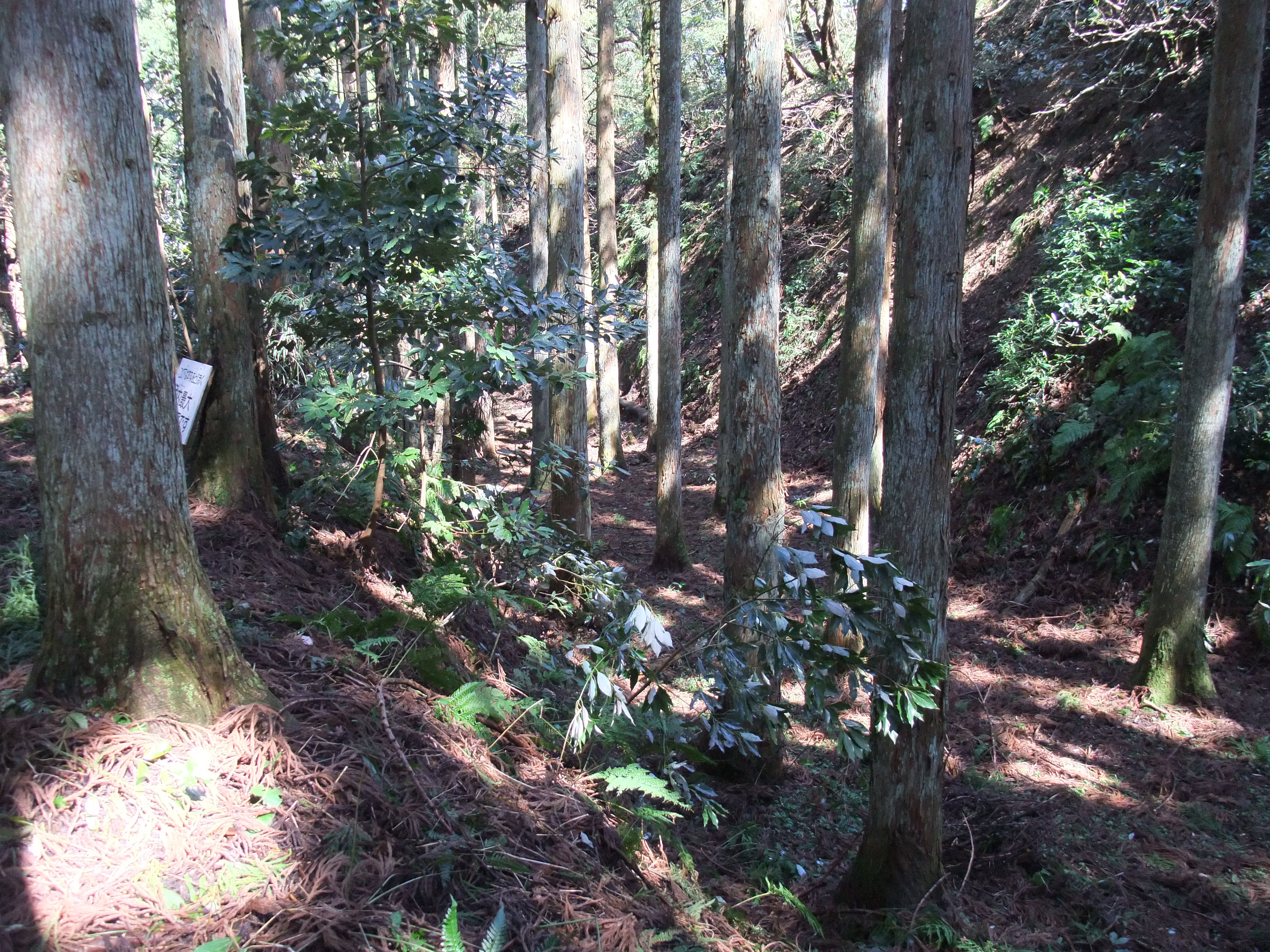 photo of Jouno castle (toyama japan)